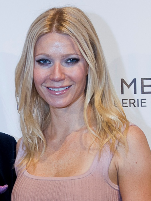 Alain Zimmermann with Baume & Mercier ambassador Gwyneth Paltrow at the 2011 Salon International de la Haute Horlogerie in Geneva Switzerland